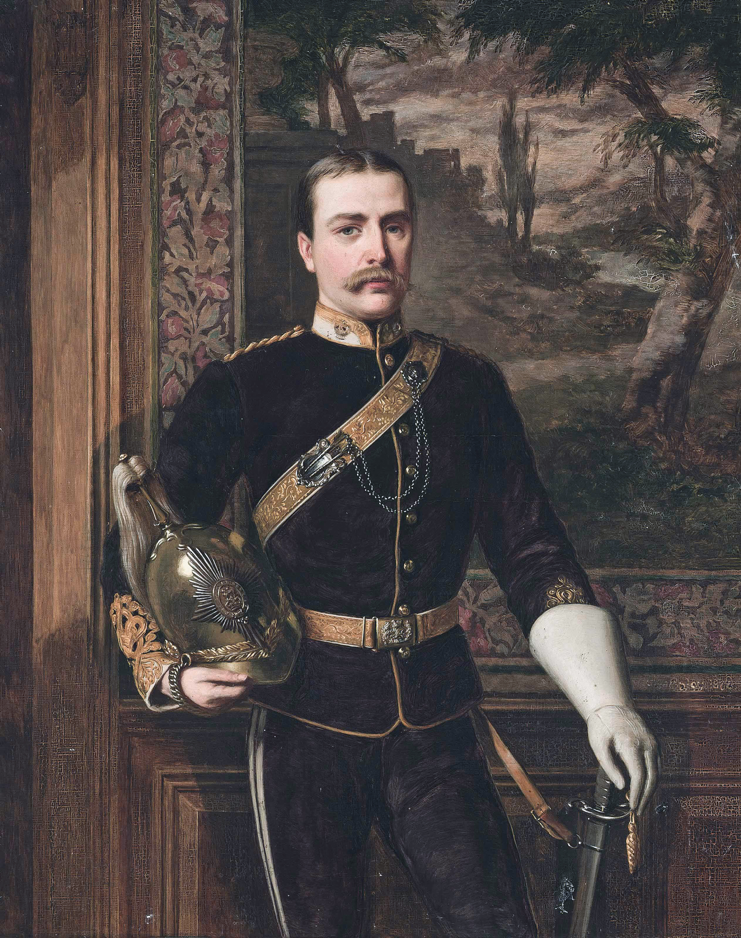 Frederic Carne Rasch (1847-1914) oil on canvas 63.5 x 50.8 cm signed b.r.: . Maw Egley 187* inscribed: 'Frederic Carne Rasch/6th Dragoons Gds 1876-77